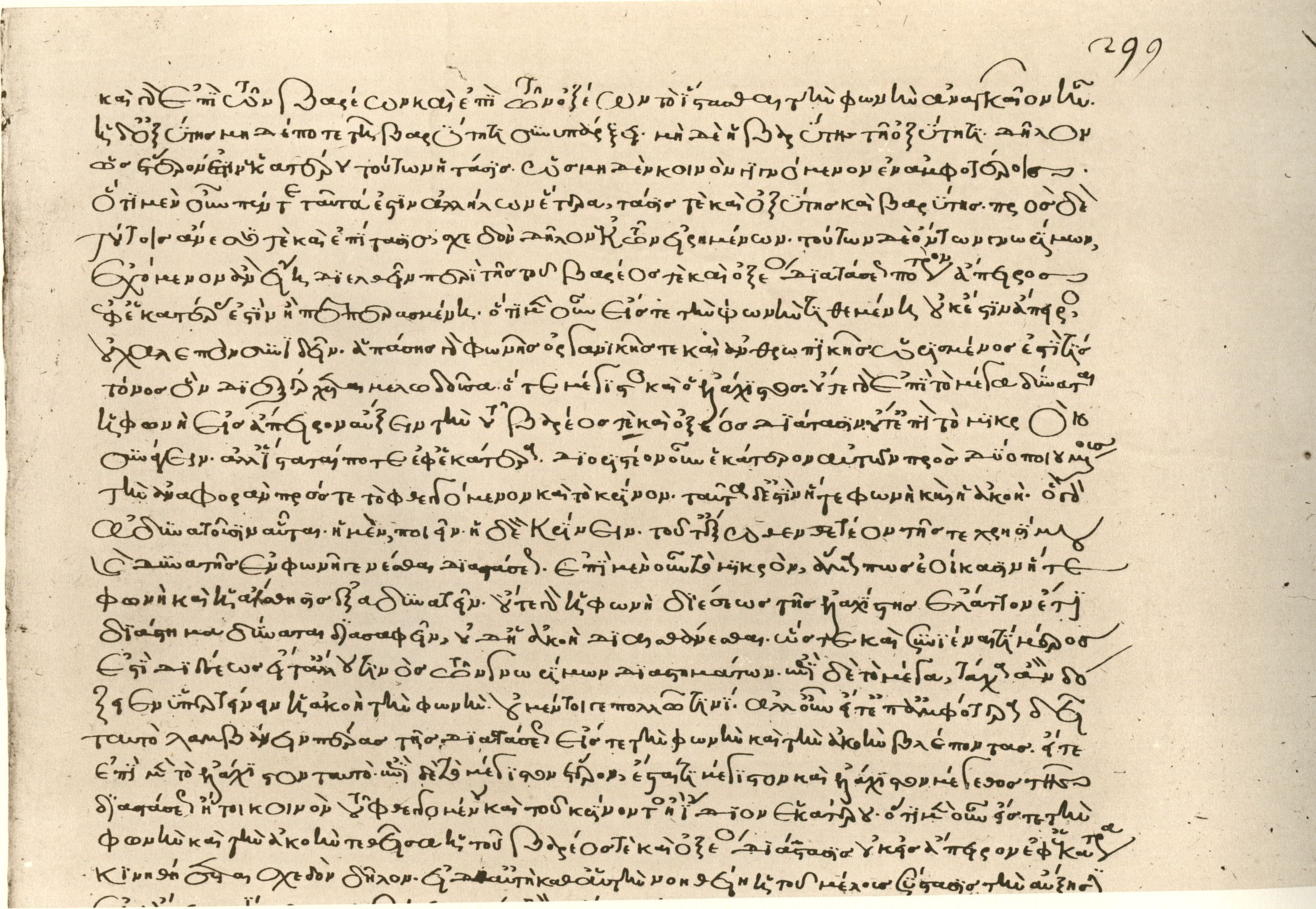 Aristoxenus, Elements of Harmony (Elementa harmonica, in ms. Biblioteca Apostolica Vaticana, Vaticanus graecus 191, fol. 299r.